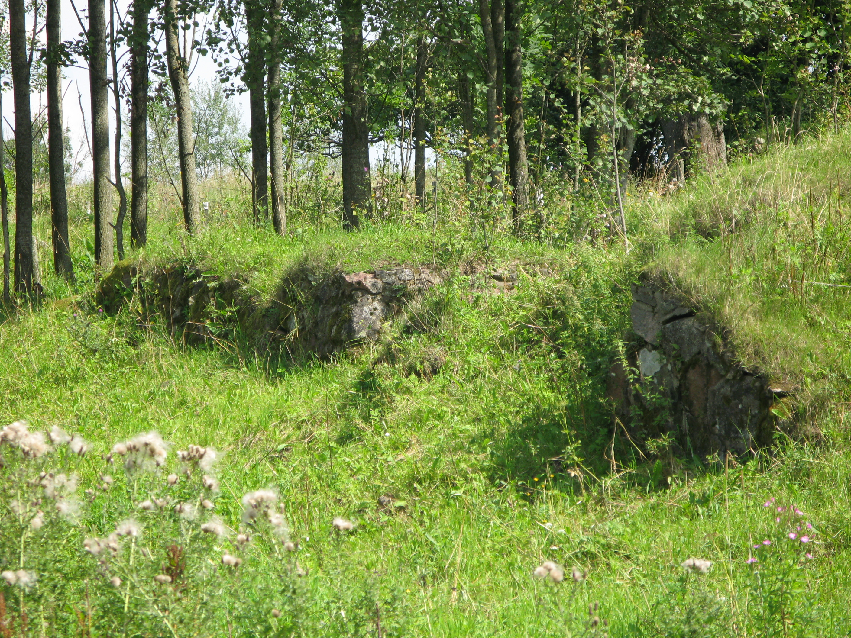 ruins of a destructed town (Golubie) in Poland, Suwalki region